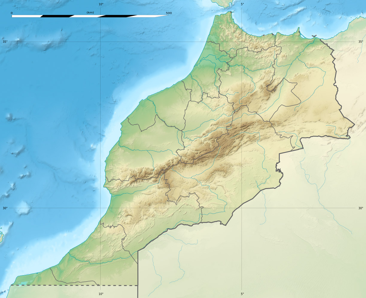 Blank physical map of Morocco, for geo-location purposes.